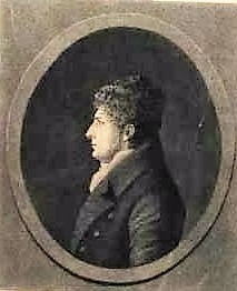 Rantzau, Christian Ditlev Carl, from: Danish portraits, The Portrait Collection, The Royal Library Copenhagen